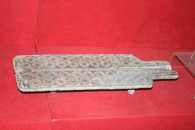 A bronze mould for crafting coinage currency from the Chinese Han Dynasty